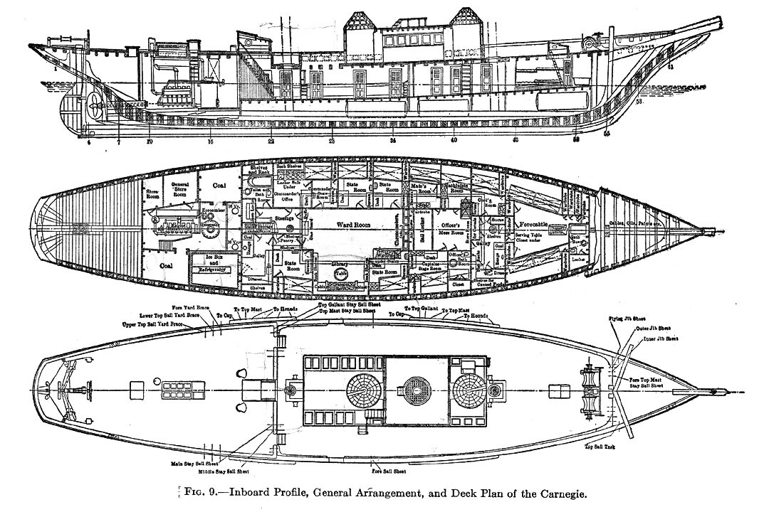 Layout of the Carnegie, showing Inboard profile, general arrangement and deck plan